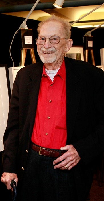 Norman Bridwell in New York, Thursday, May 5, 2011. More details are at